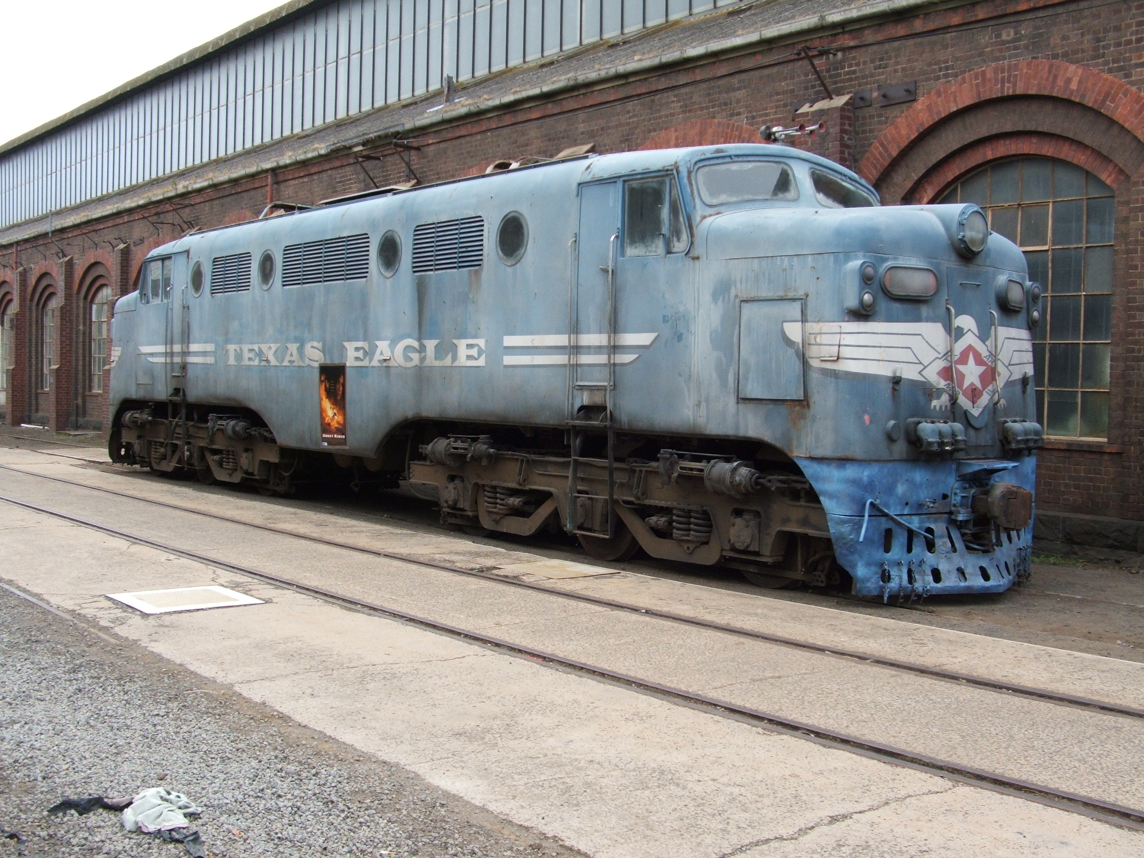 Former Victorian Railways L class electric locomotive L 1169, painted in a special Texas Eagle livery for use in the production of the movie Ghost Rider. Photographed at Newport Workshops, Victoria 2007-03-12. Zzrbiker 11:31, 26 May 2007 (UTC)